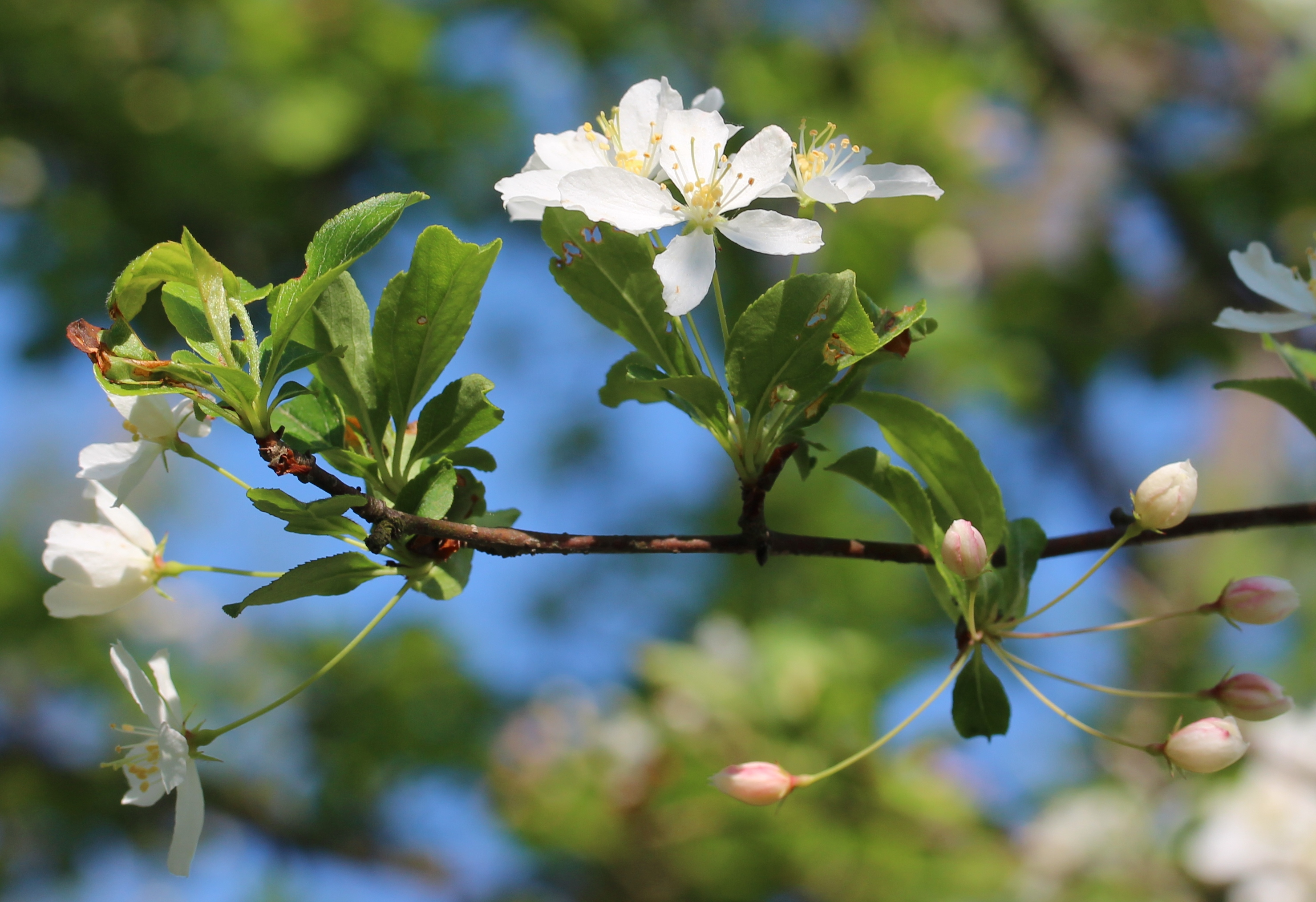 Callery pear (Pyrus calleryana Decne.), flowers in Komaki, Aichi, Japan